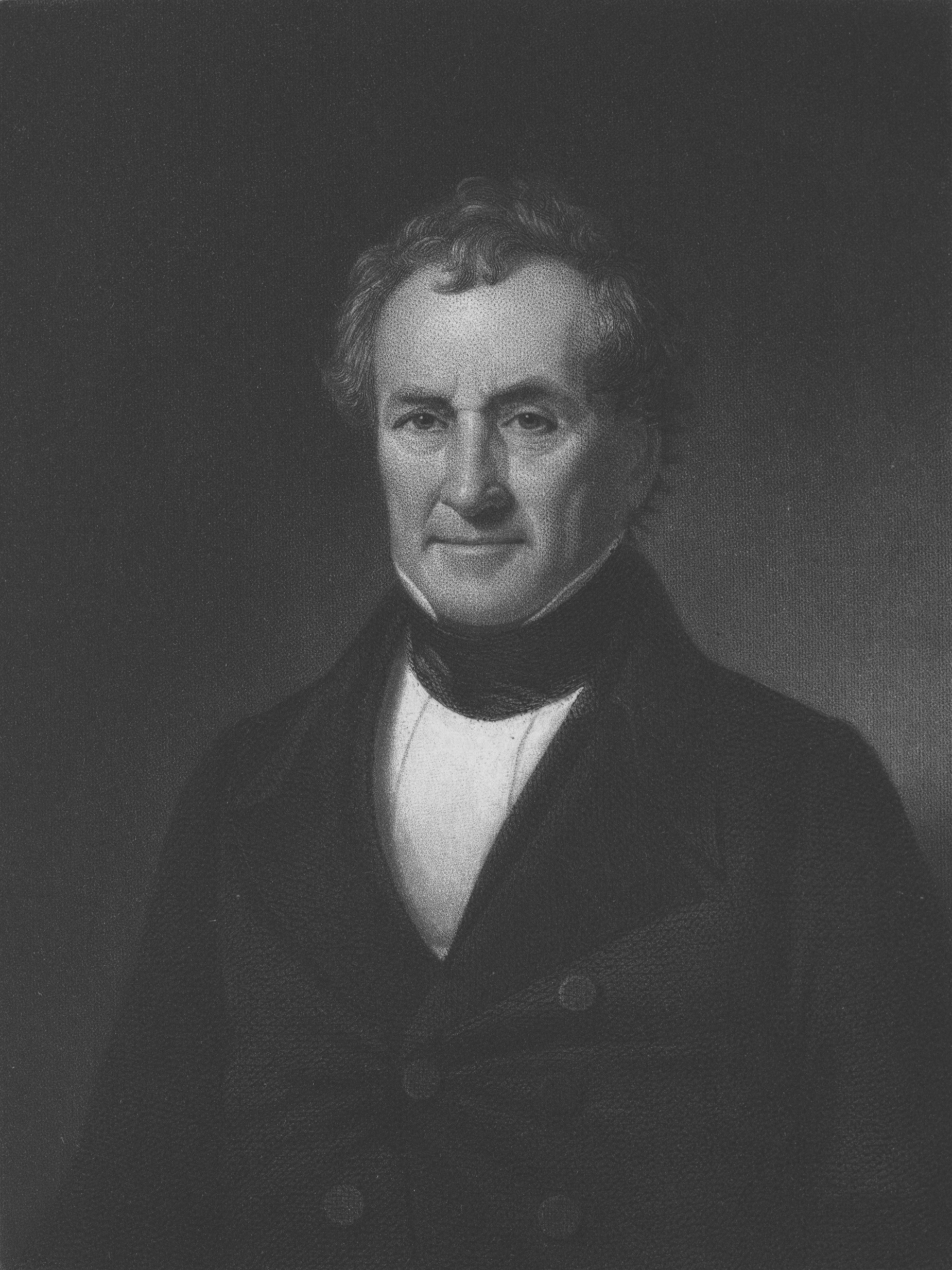 Portrait of James Tallmadge.